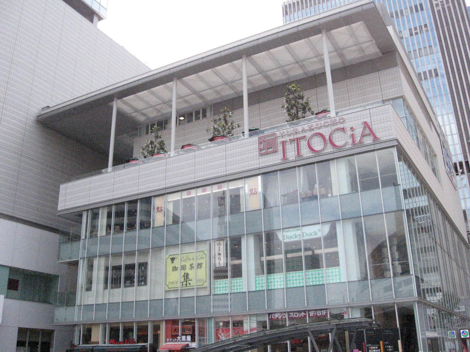 Yurakucho Itocia.